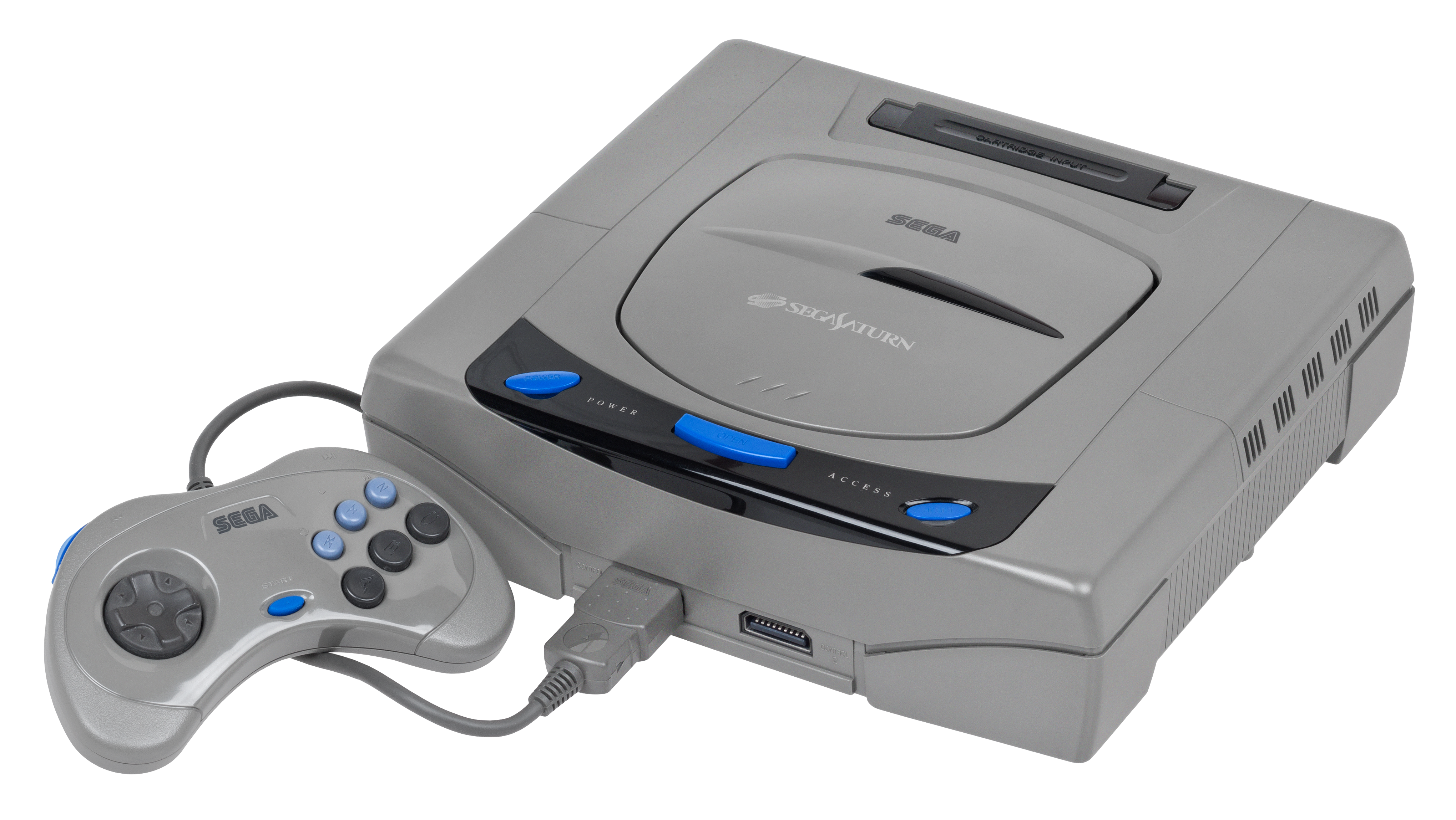 A first generation Japanese Sega Saturn console shown with controller. This is the "oval button" model that was gray. Later it was replaced by a "round button" white model.